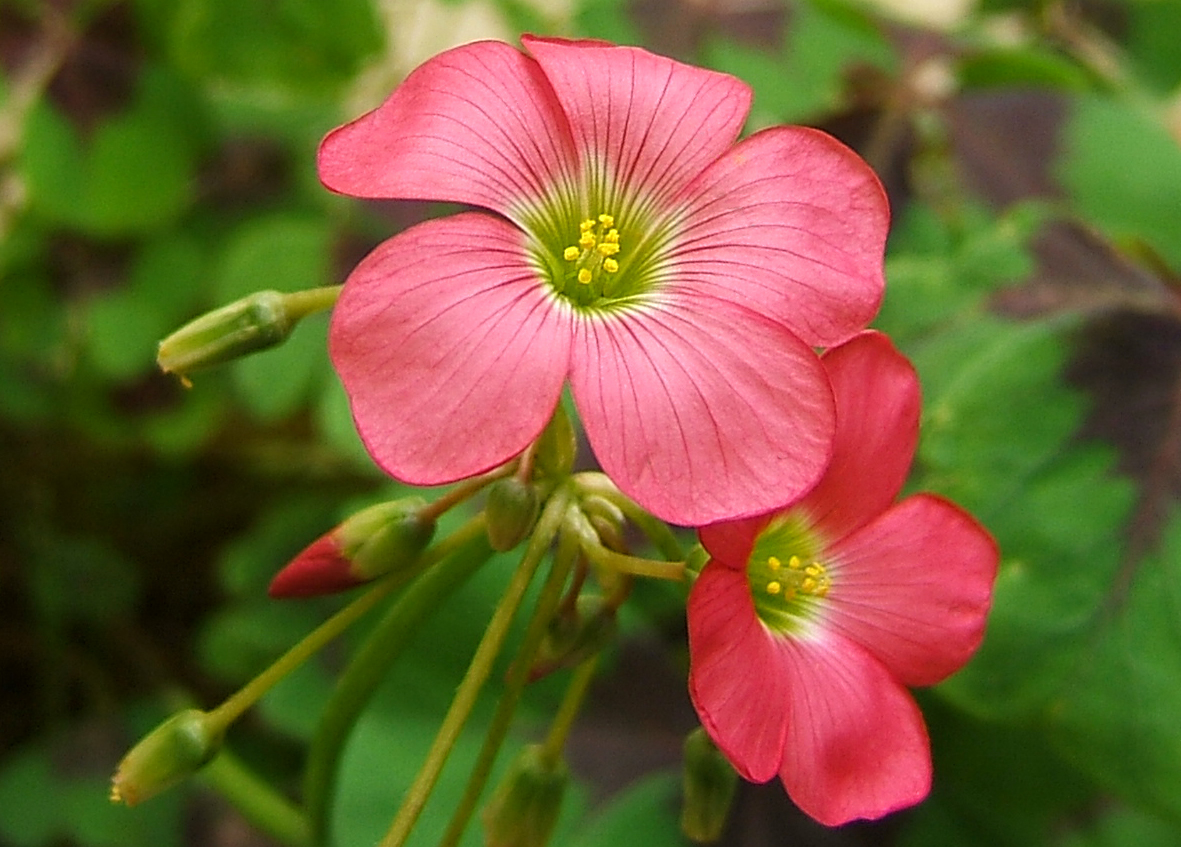 Fourleaf Sorrel; Lucky Clover